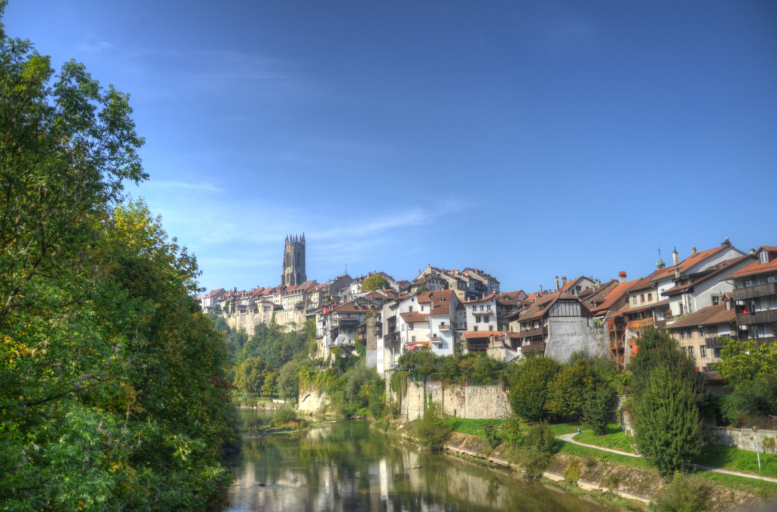 Bild der Kathedrale von Fribourg vom Pont du Milieu aus. Am unteren Bildrand ist die Saane erkennbar.